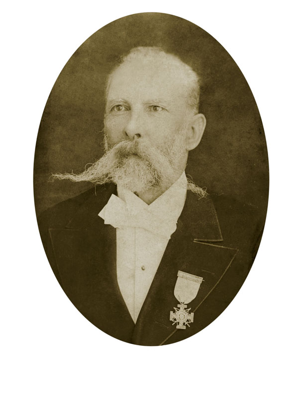 Engineer Don Pedro Marzo